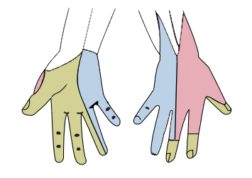 The cutaneous innervation of the right upper hand. Both areas supplied by the medial brachial cutaneous are colored green. The areas supplied by branches of the radial nerve are colored in pink.